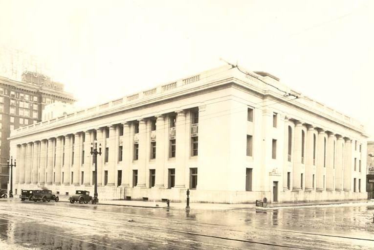 Frank E. Moss United States Courthouse, formerly the U.S. Post Office and Courthouse, completed in 1905. Supervising Architect: James Knox Taylor Extension completed in 1932. Supervising Architect of extension: James A. Wetmore Still in use by the U.S. District Court for the District of Utah; the U.S. Circuit Court for the District of Utah met here until that court was abolished in 1912. Renamed the Frank E. Moss United States Courthouse in 1990.